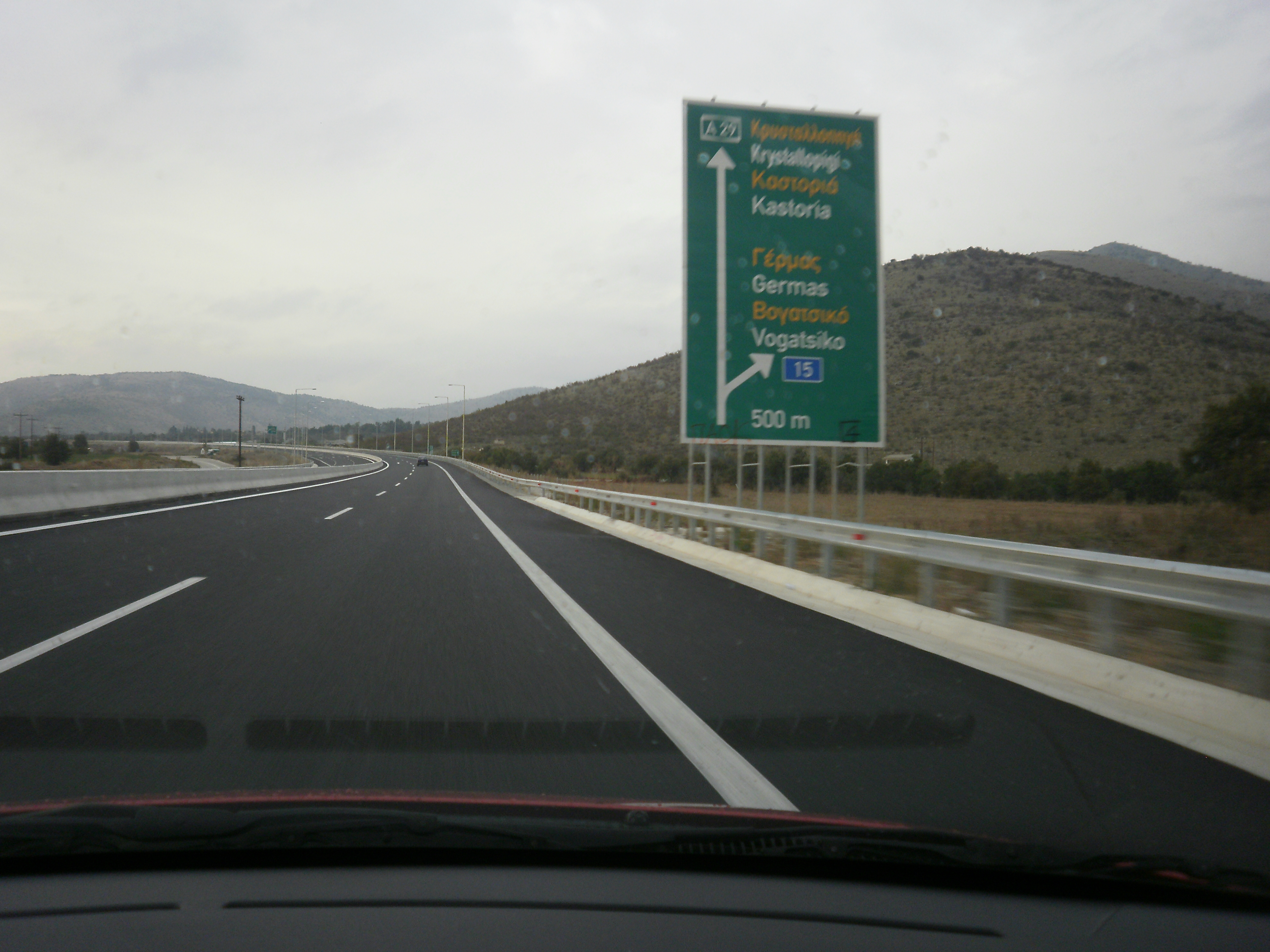 Greek Motorway A29 (Siatista-Kastoria-Koromilea), Section Vogatsiko-Neo Kostarazi, exit Vogatsiko (Kastoria direction). Information sign indicating Vogatsiko exit to National Road 15 within 500 m distance. Traffic sign is PI-81 according to Greek Road Traffic Code (KOK 2009) and Greek regulations concerning signage on motorways (OMOE-KSA 2003).